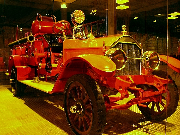 Historic American LaFrance fire engine (1917) at Eretz Israel Museum, Tel Aviv.